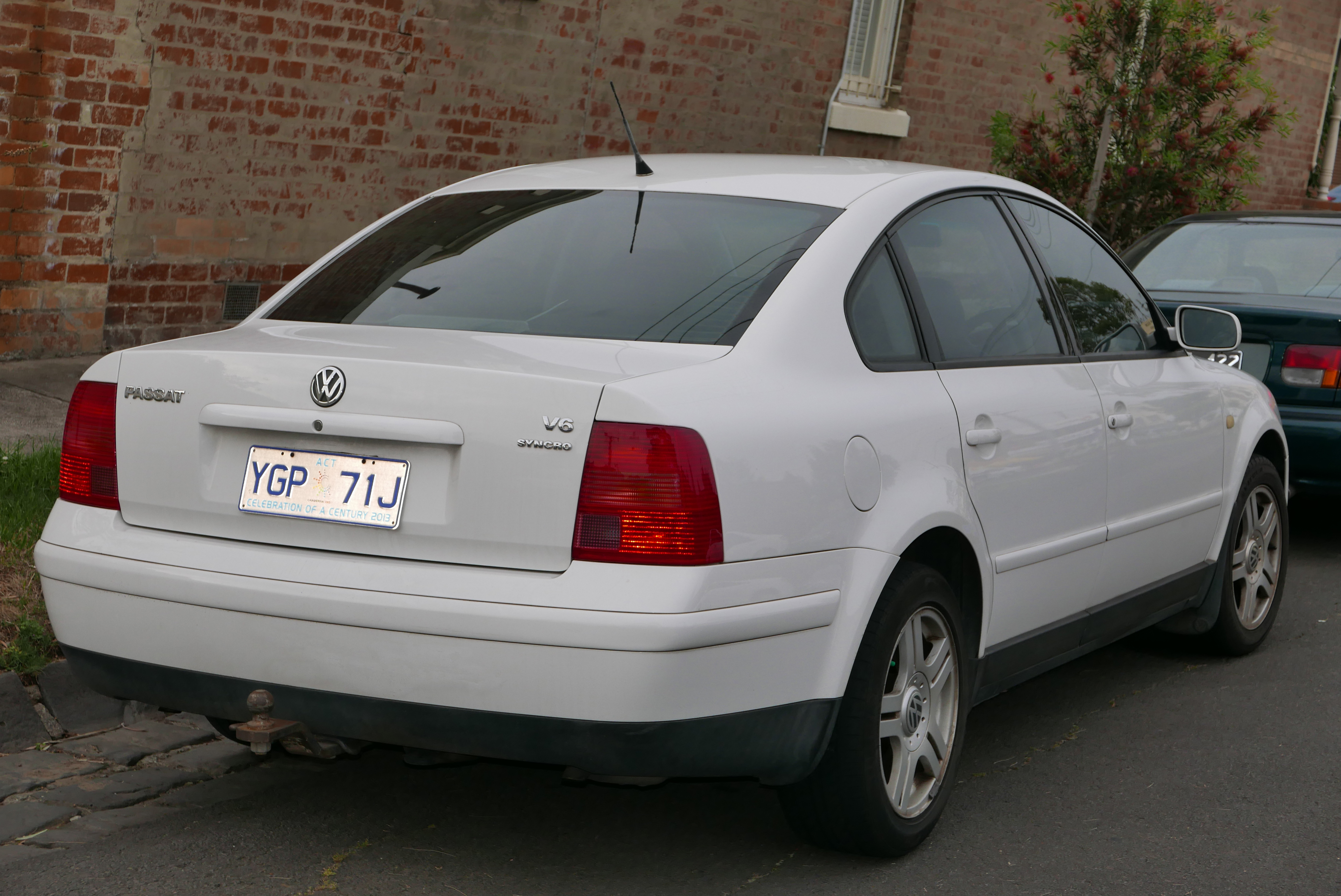 1999 Volkswagen Passat (3B MY00) V6 Syncro sedan. Photographed in Ascot Vale, Victoria, Australia. Vehicle registration enquiry results Jurisdiction Australian Capital Territory Registration YGP71J Compliance date 1999-09 Year of manufacture 1999